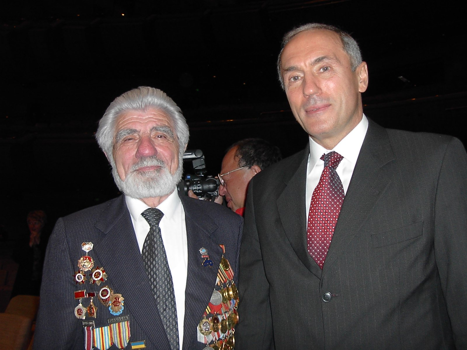 Photo by User:Adam Carr, May 2005